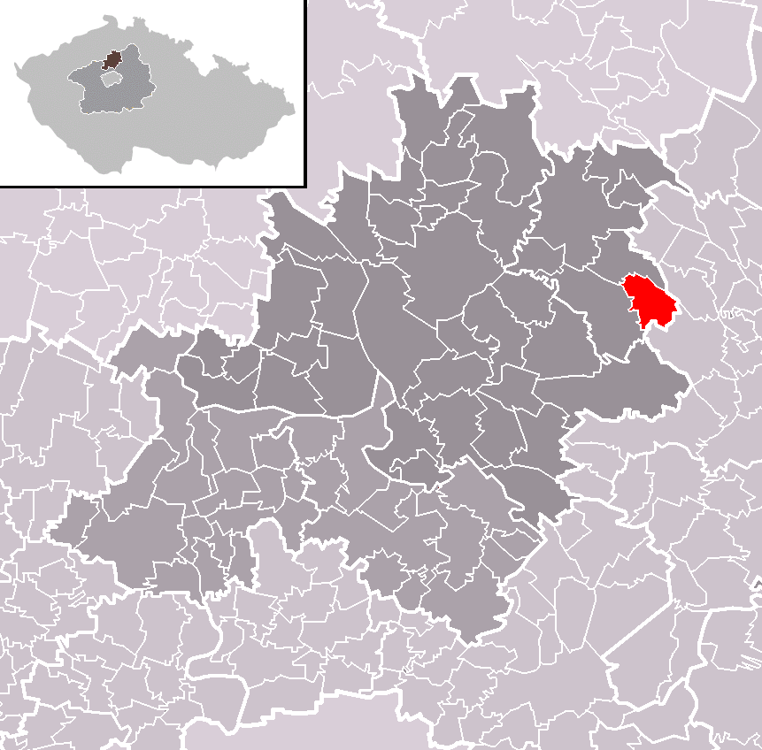 Location of Kadlín municipality within Mělník District and administrative area of Mělník as a Municipality with Extended Competence.